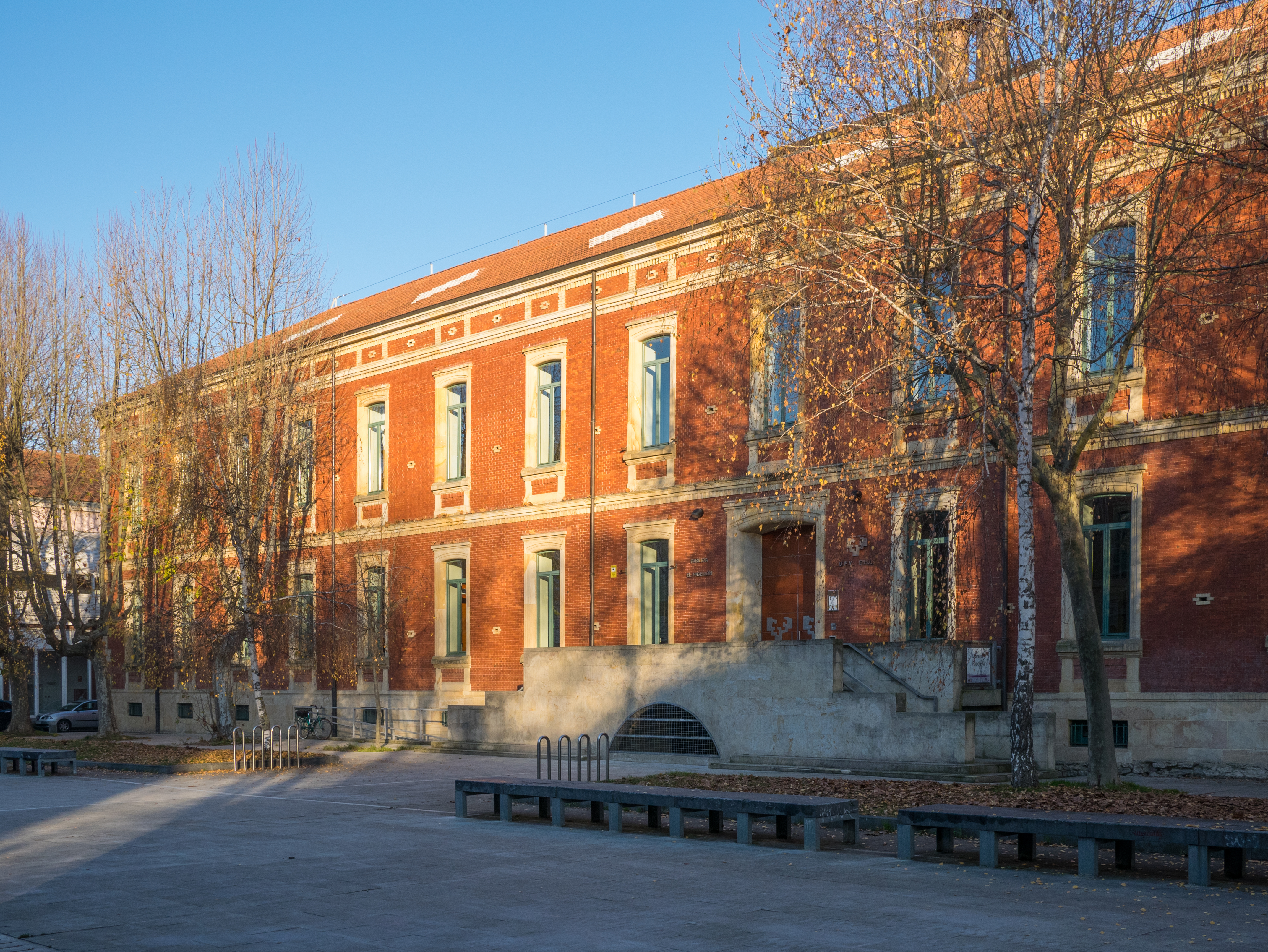 University building "El Pabellón" of the University of the Basque Country, with canteen, cafeteria and bookshop. Vitoria-Gasteiz, Basque Country, Spain